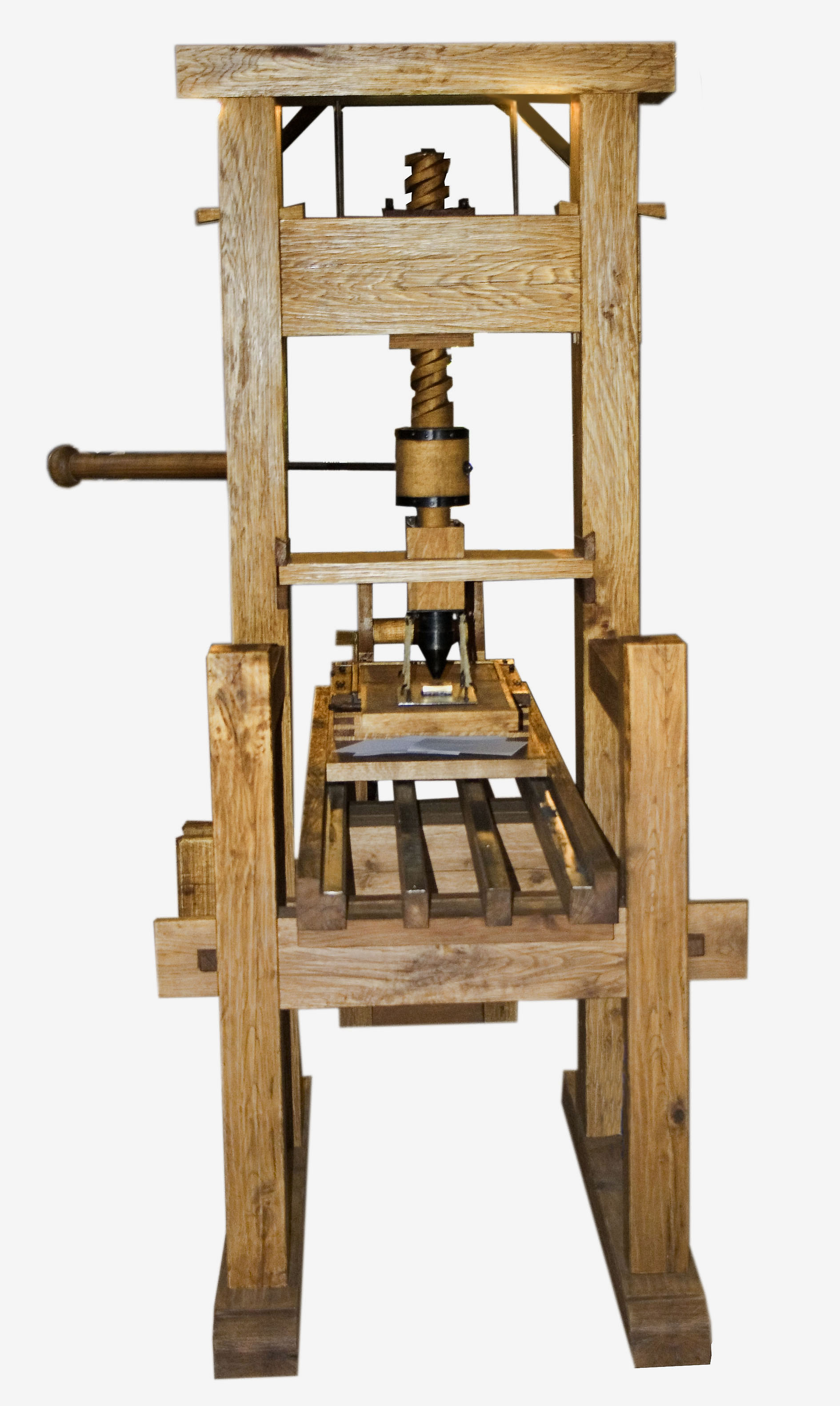 Hungary, County Zemplen, Vizsoly Reformed Romanesque church - Reconstituted wood printing 1586